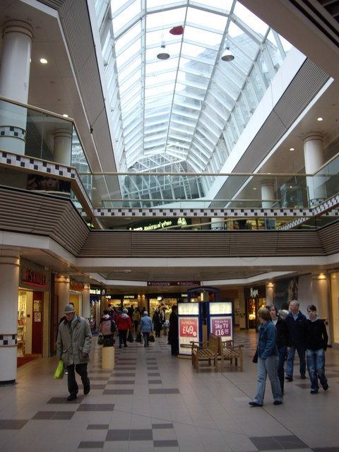 Inside the Bon Accord centre